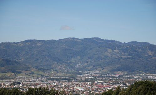 Taken from Irazú Volcano